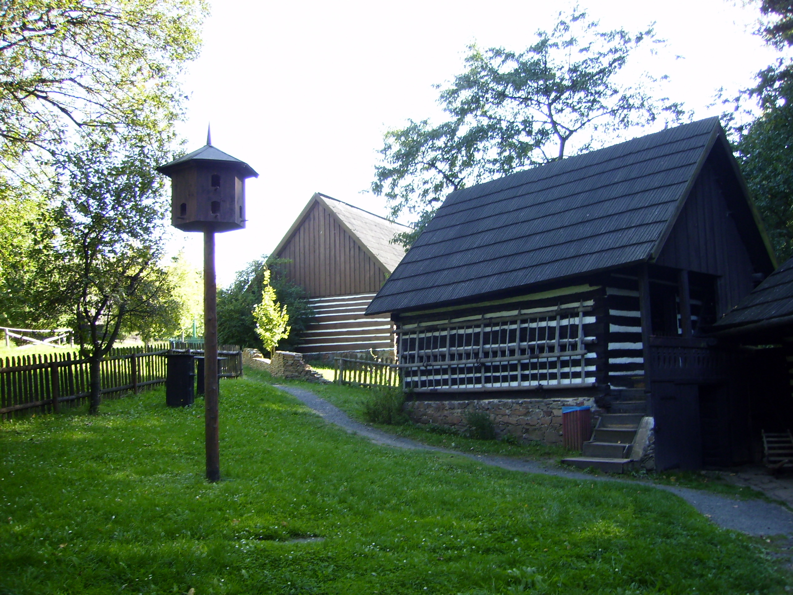 Open-air museum in Kouřim, Czech Republic.